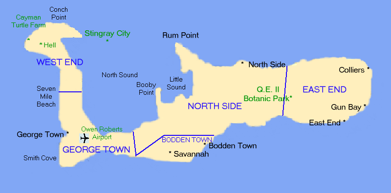 Map of Grand Cayman Island, Cayman Islands. Drawn by uploader User:(WT-shared) OldPine, released under CC-by-sa. map: Caribbean Map of: Caribbean.